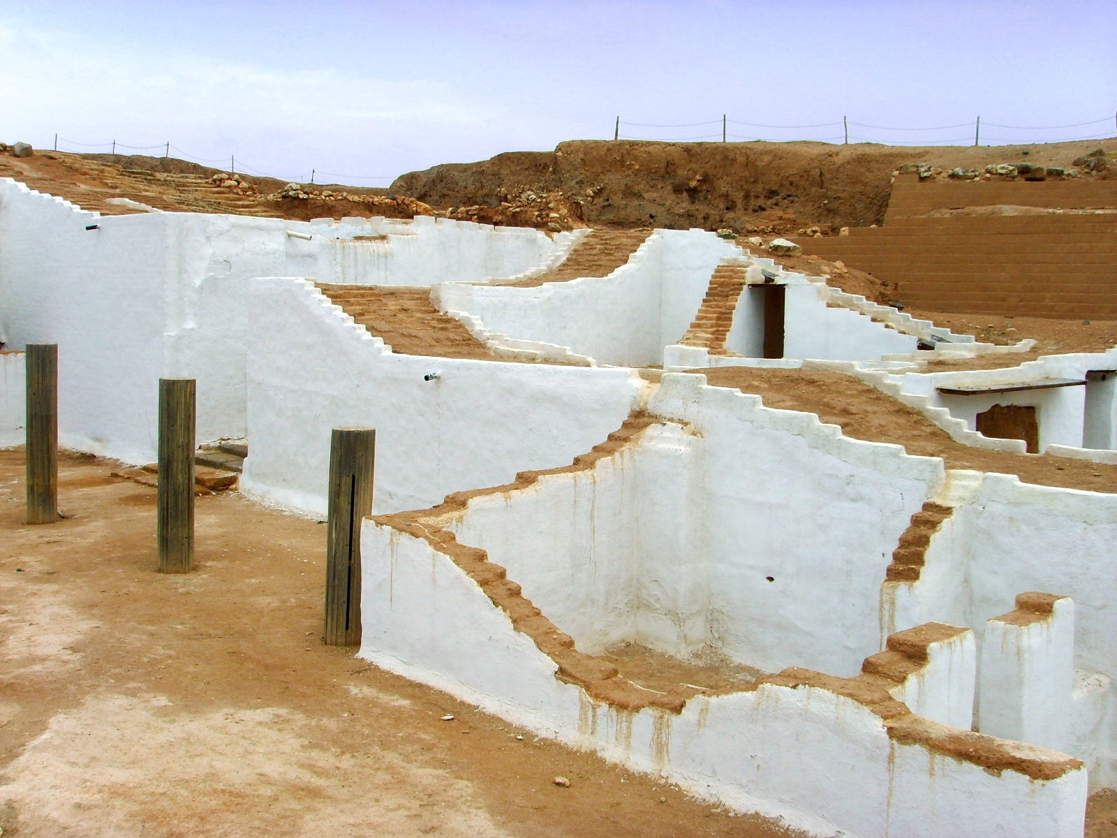 Ebla/Syria